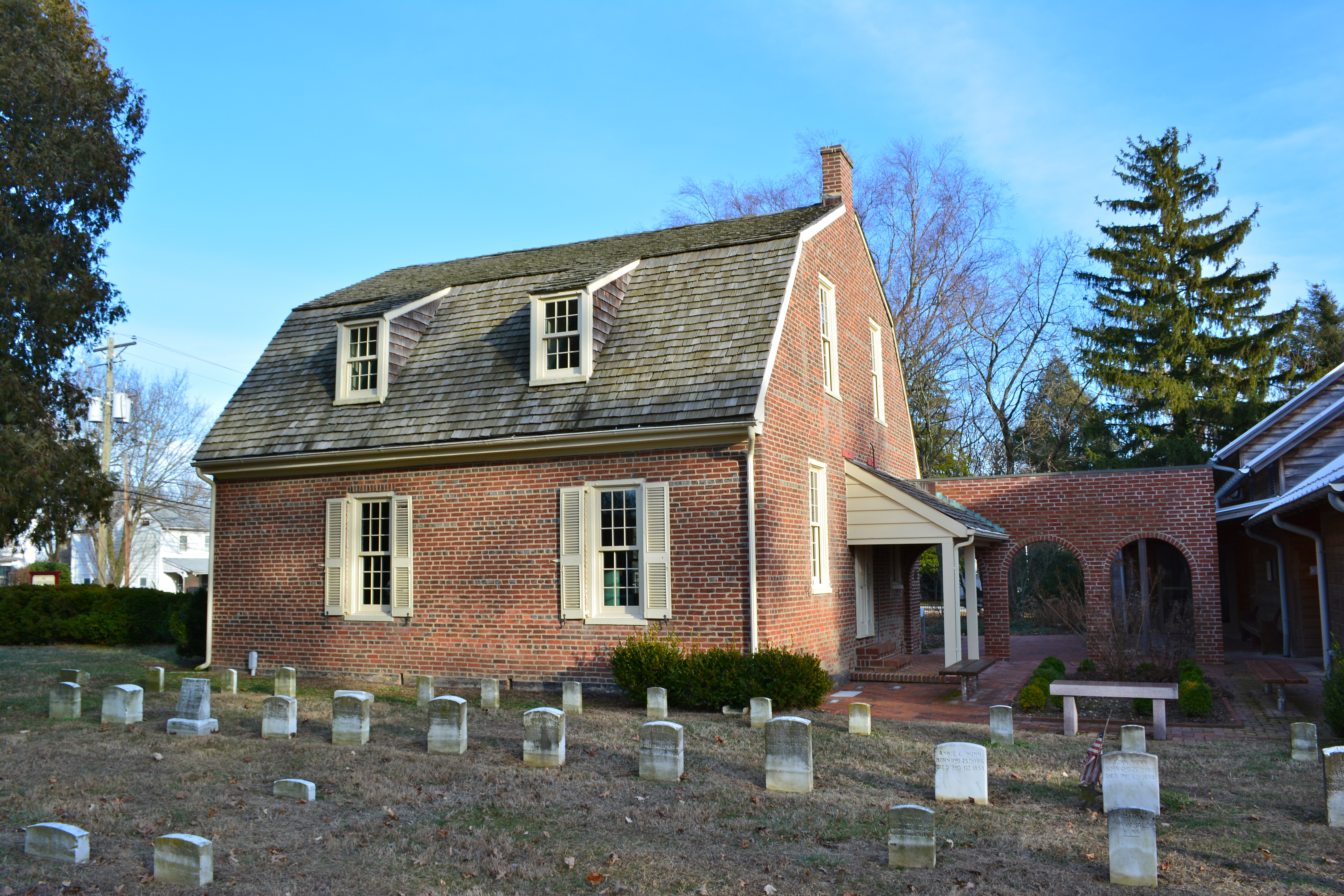 Camden Friends Meetinghouse on the NRHP since April 3, 1973 on Camden Wyoming Avenue, Camden, Kent County, Delaware